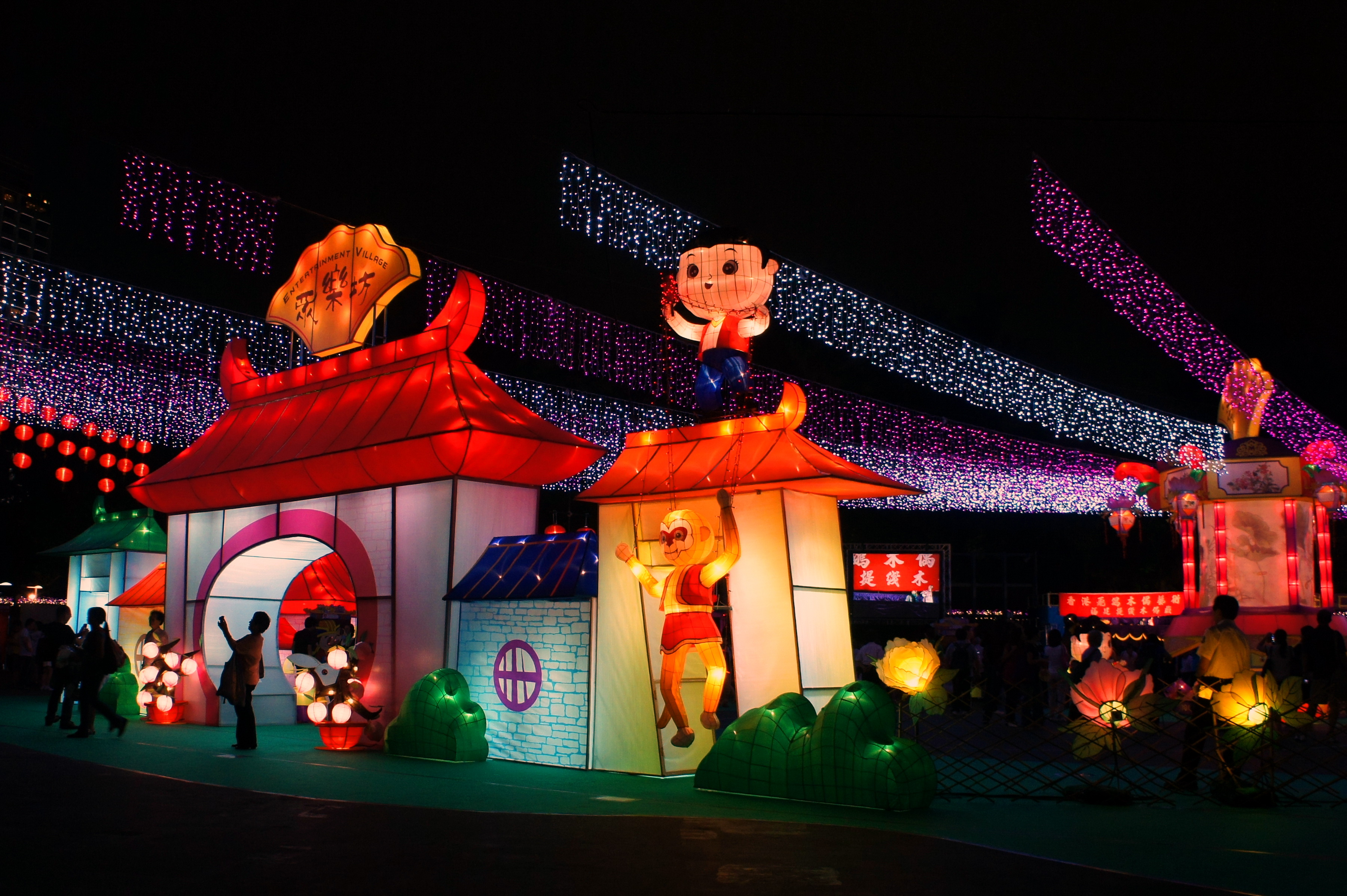 Mid-Autumn Lantern Carnival 2012, Victoria Park, Causeway Bay, Hong Kong.